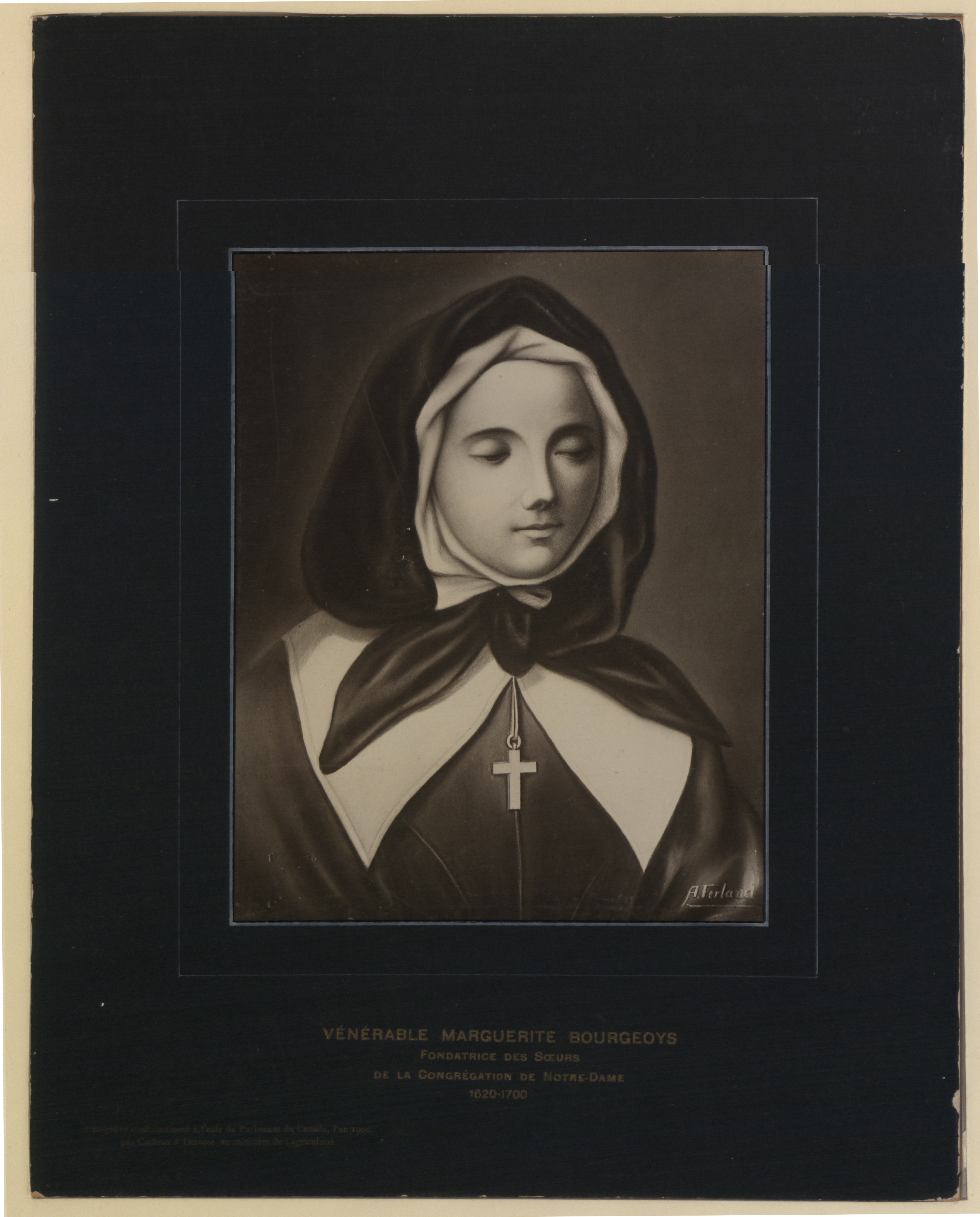 Original caption: "Venerable Mere Marguerite Bourgeoys." This is a photographic reproduction by Albert Ferland of an artwork by an artist who is not credited in the source. This photographic reproduction was registered for copyright by publishers Cadieux & Derome.